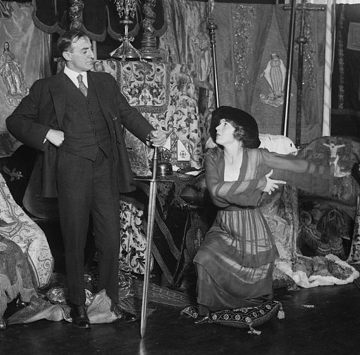 French actor Guy Favières (1876-1963) and Amercian actress Ina Claire (1893-1985). Possibly in Christy Cabanne's National Red Cross Pageant (1917)